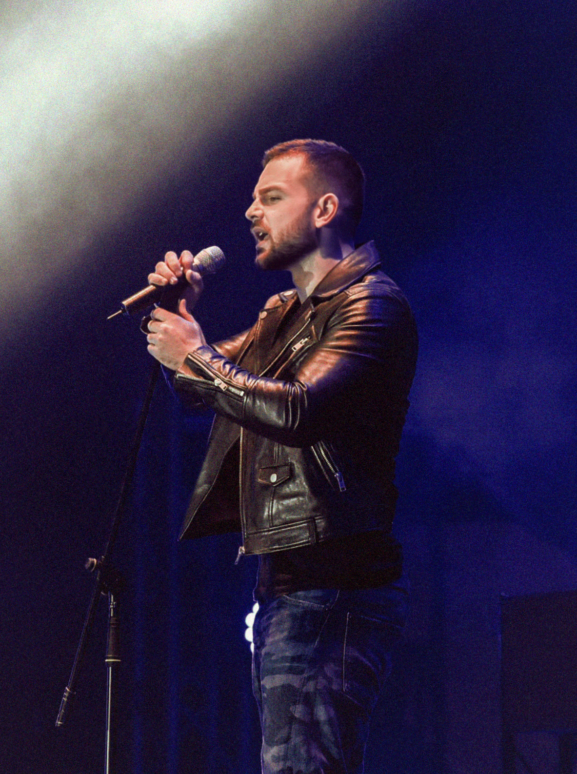 Alban Ramosaj performing as the opening act for Emeli Sande, Nov 2017.png